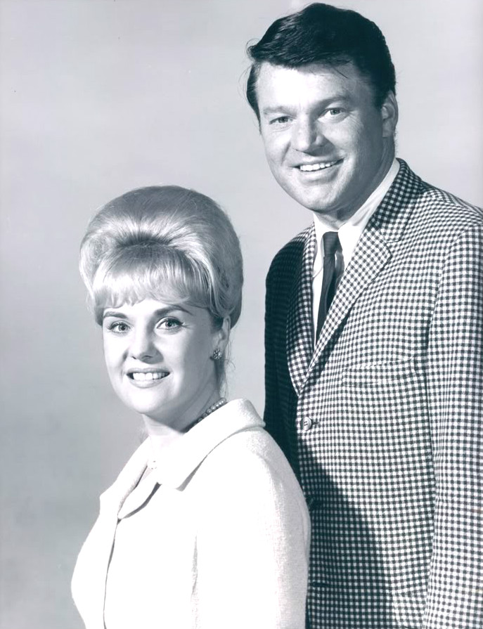 Photo of country vocalists Molly Bee and Rusty Draper from the television series Swingin' Country.